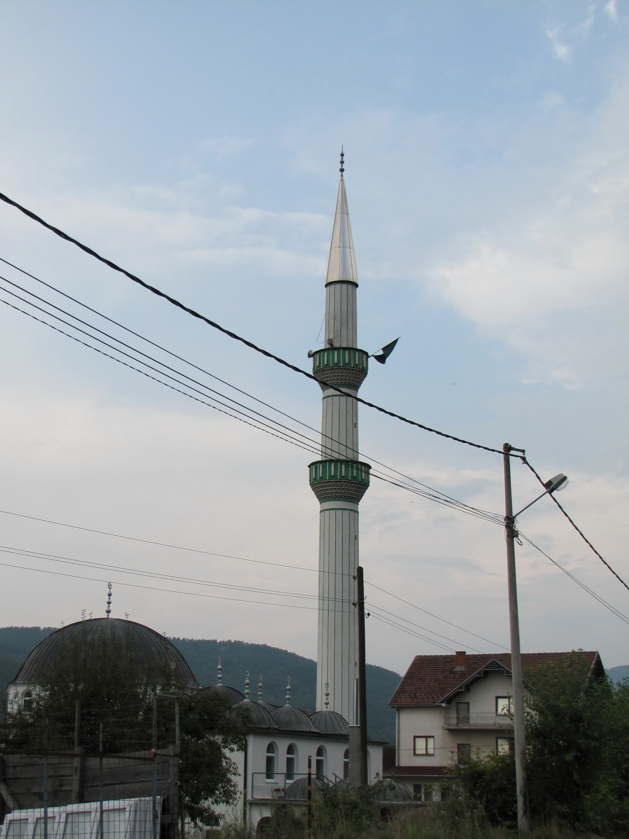 Mosque in Mur.